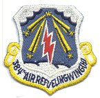 Emblem of the 384th Air Refueling Wing